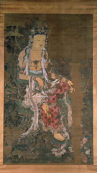 양류관음도, Avalokiteshvara (관세음보살 觀世音菩薩), hanging scroll, ink and colors on silk H: 203 in. x W: 119 3/4 in. Drawn in Goryeo period of Korea. Stored at Kagami Jinjya Temple, Japan (鏡神社 (唐津市))